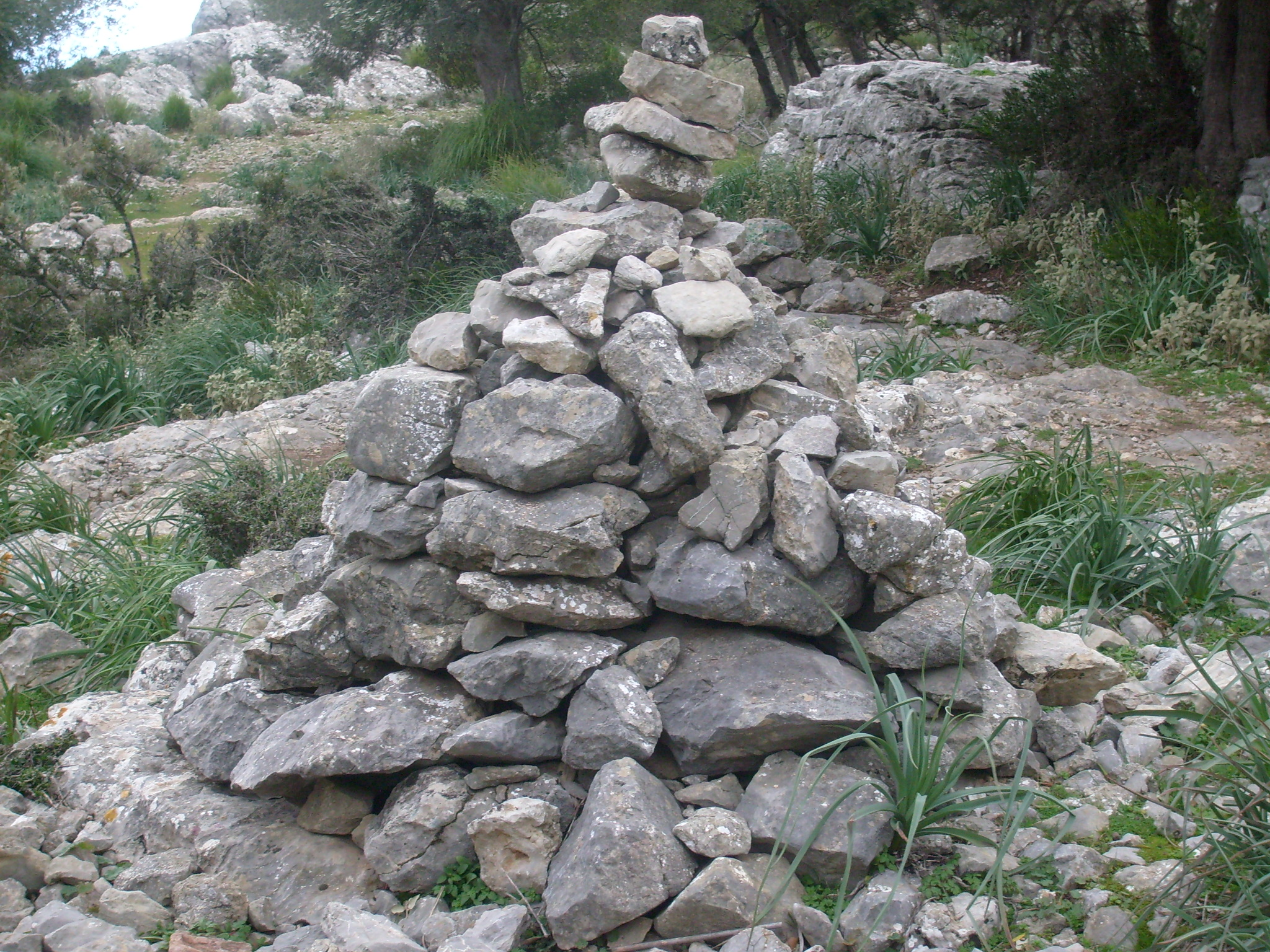 Cairn showing the way to the Torrent de Pareis